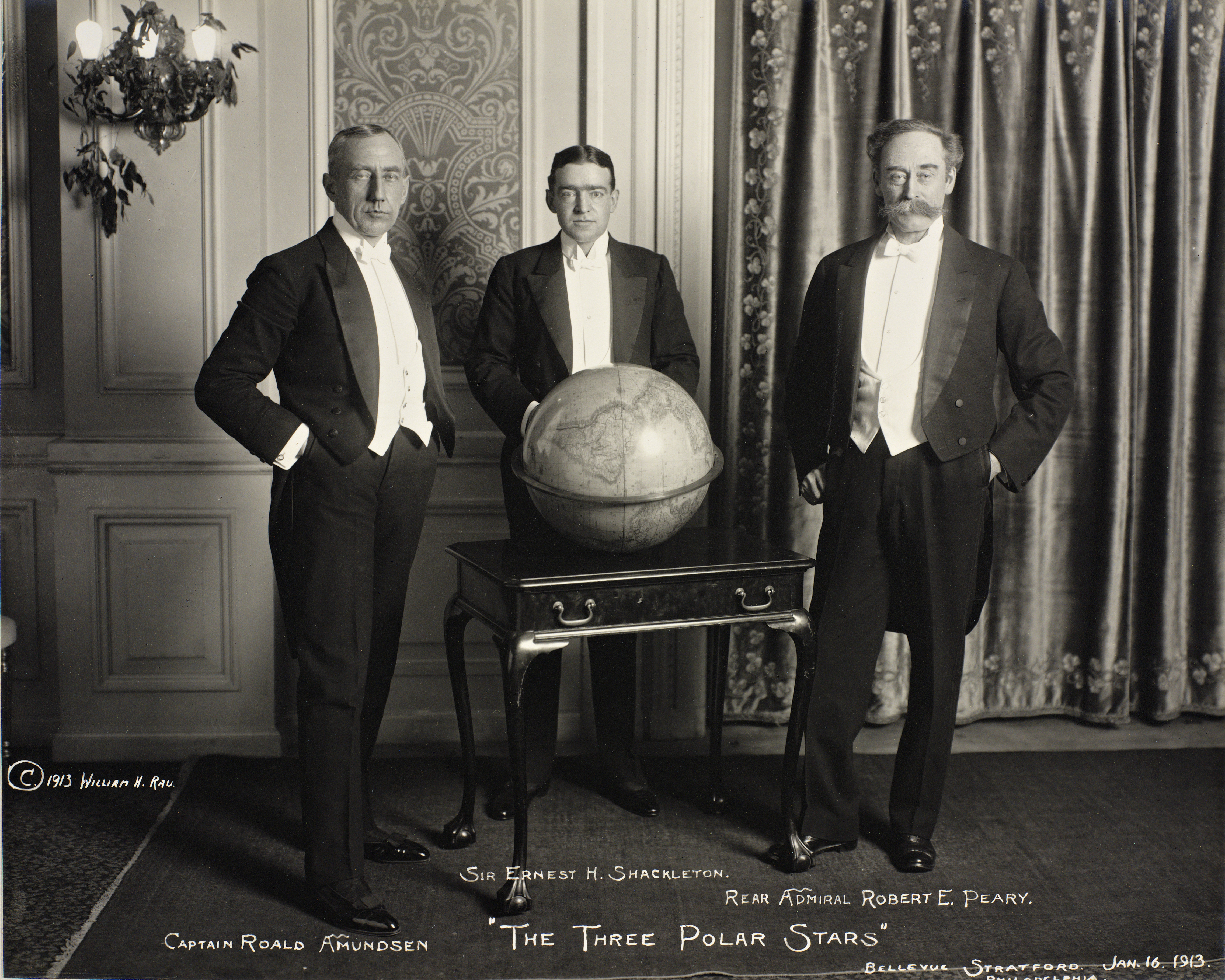 Tittel / Title: The Three Polar Stars Beskrivelse / Description: Roald Amundsen (1872-1928), Ernest Henry Shackleton (1874-1922) og Robert Edwin Peary (1856-1920) i selskapsantrekk. Amundsen holdt på denne tiden en serie foredrag om sin ekspedisjon til Sydpolen. Noen dager tidligere hadde Amundsen mottat The National Geographic Society's Gold Medal. Dato / Date: 16. januar 1913 Fotograf / Photographer: William H. Rau Sted / Place: USA, Philadelphia Eier / Owner Institution: Nasjonalbiblioteket / National Library of Norway Lenke / Link: Bildesignatur / Image Number: bldsa_SURA0042 Alternate description: Bulletin of the Geographical Society of Philadelphia